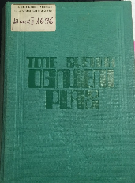 Book cover